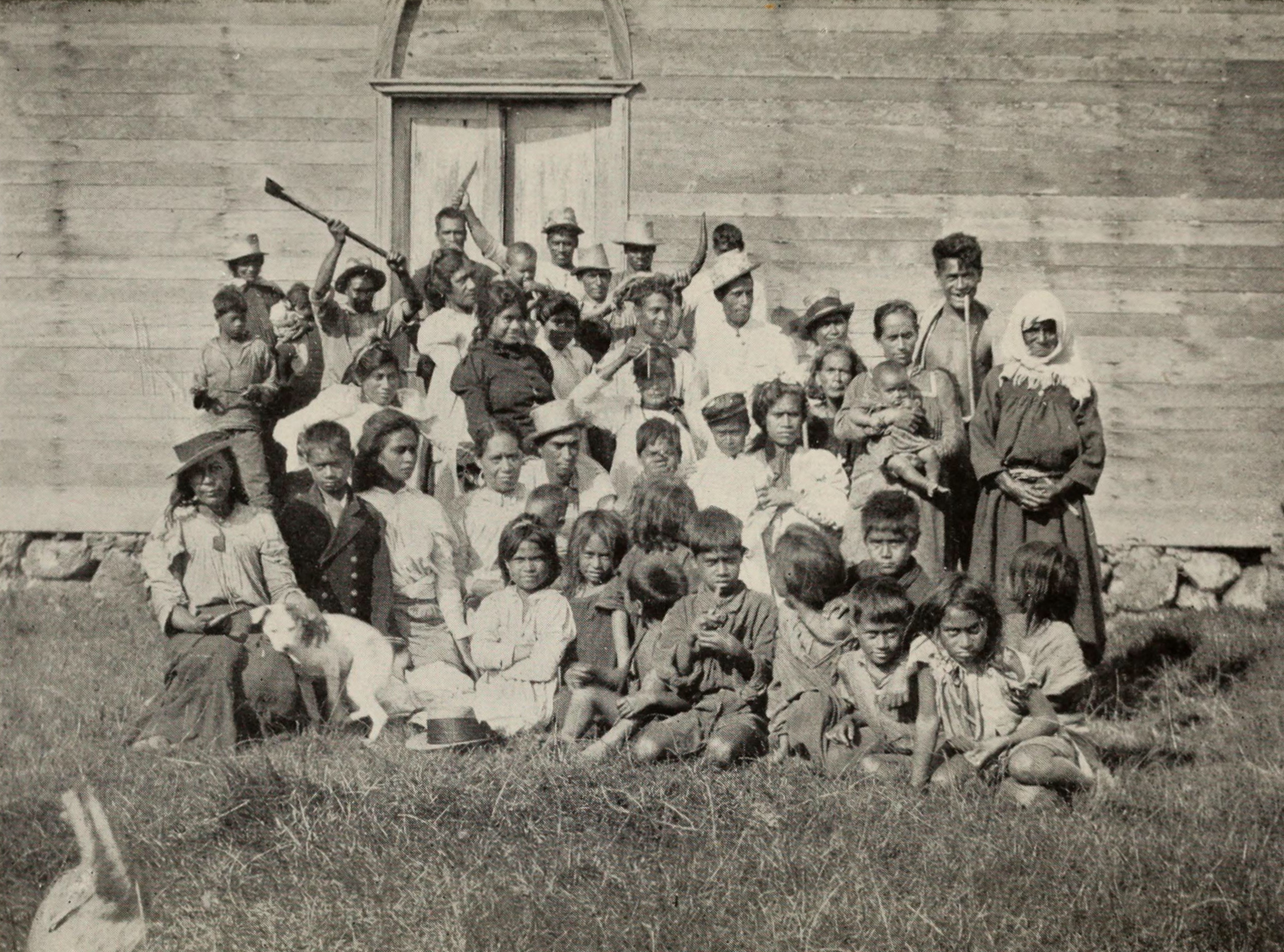 A Group of Easter Islanders Outside the Church Door, Mana Expedition, Easter Island